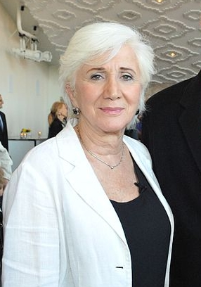 (L-R) Rick Mercer, Olympia Dukakis, John Patrick Shanley and Norman Jewison at Malaparte for "Norman Jewison and Friends with Moonstruck". Images courtesy of TIFF.